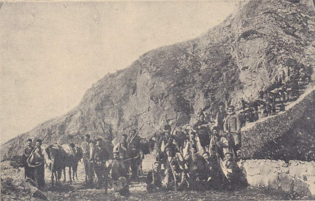 Stanish Nakov cheta